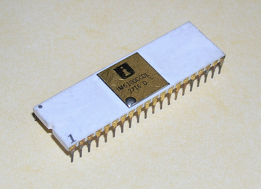 Intersil IM6100CCDL